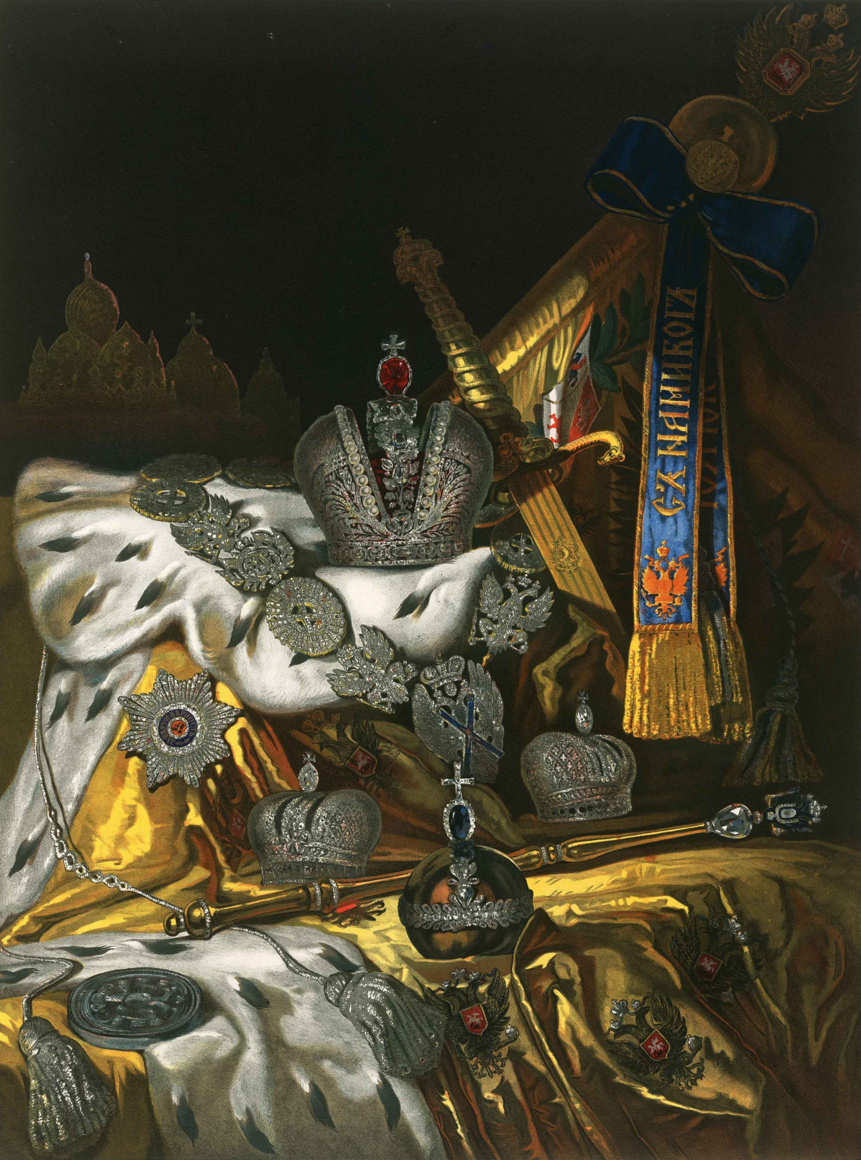 Picture of the Russian Regalia / Darstellung der Kaiserlichen Regalien Russlands (Chromolithographie)